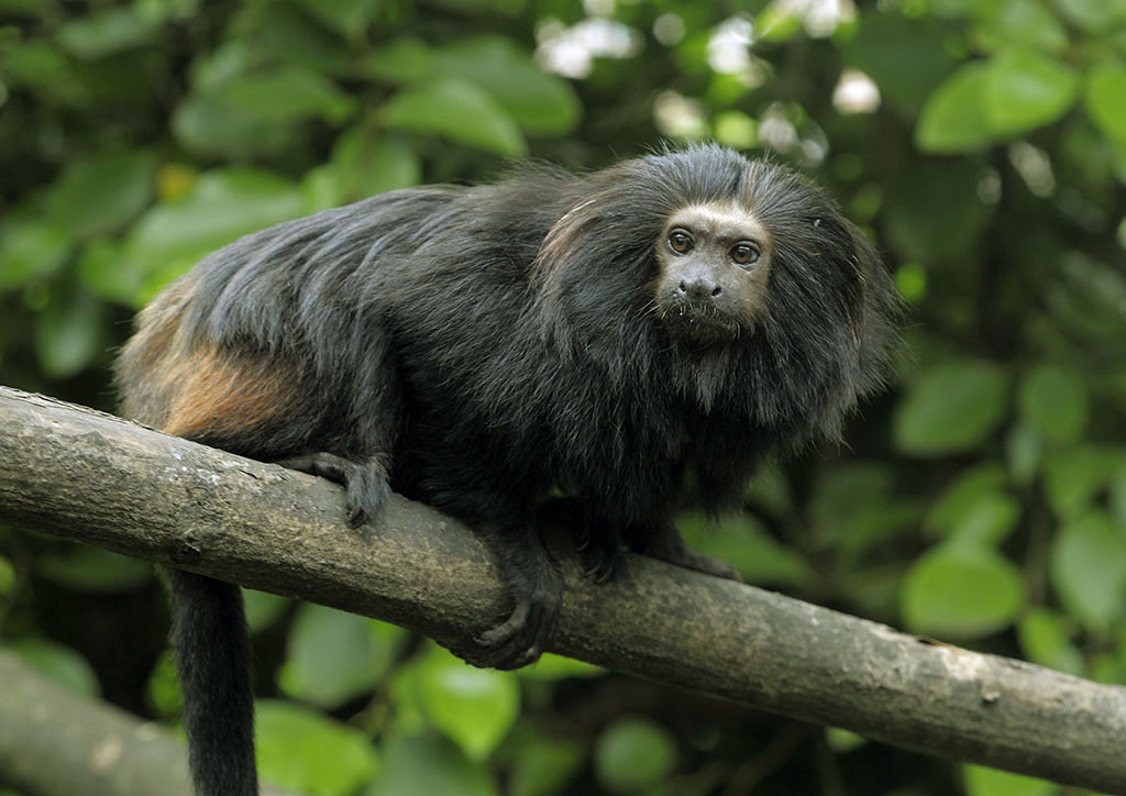 Black lion tamarin (Leontopithecus chrysopygus) in Bristol Zoo. The species was exposed in Zona Brazil.